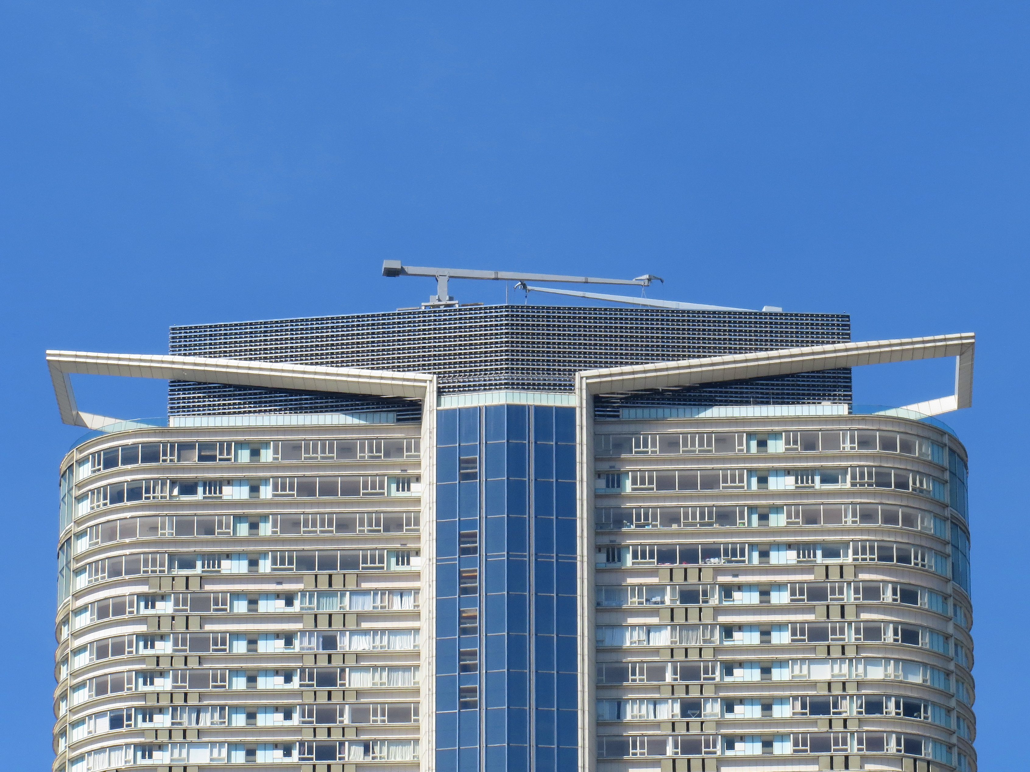 The Masterpiece, Tsim Sha Tsui, Kowloon, Hong Kong. Simplex floor from 58th to 62nd floor. Two-floors Duplex (63 & 65) and (66 & 67).